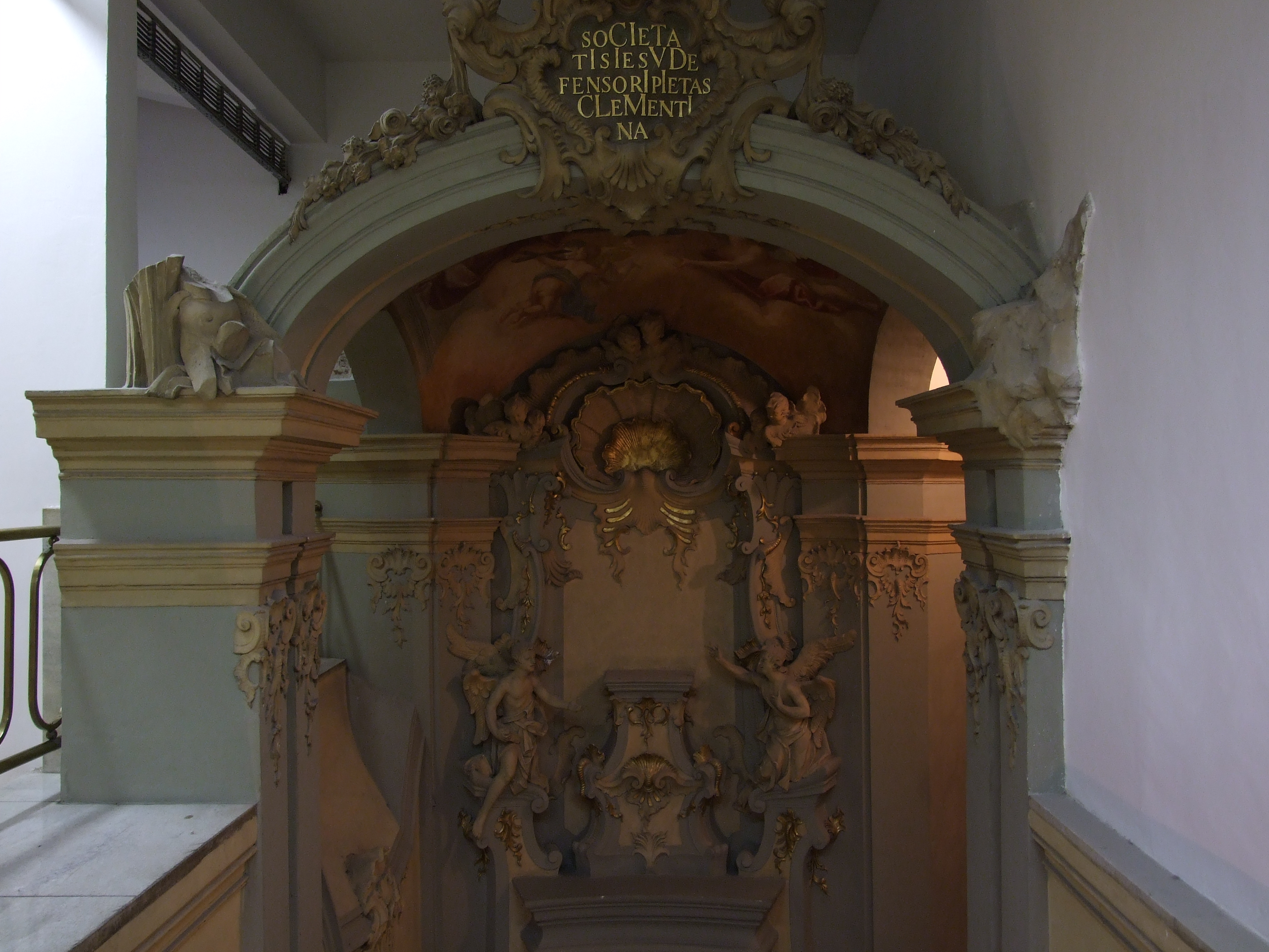 Inside of Prague-Clementinum, Old Town, Prague, CZhelp